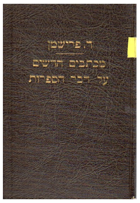 Cover of the book of David Frishman, hebrew writter of the end of XIX century/beginning of the XXth century:SHIV`AH MIKHTAVIM HADASHIM: `AL DEVAR HA-SIFRUT (Seven new letters on Literature). Published in Berlin